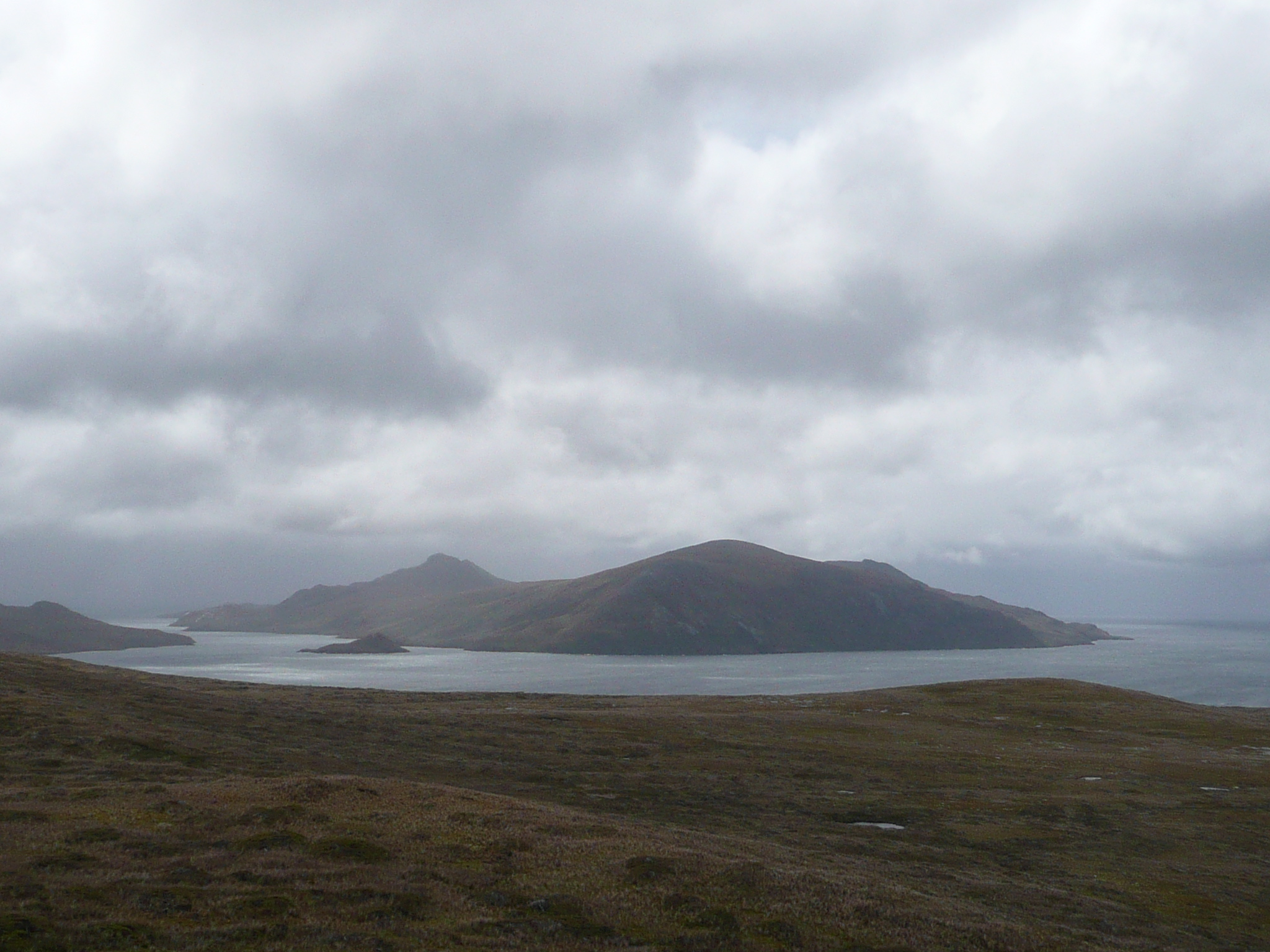 View of Freycinet Island - Wollaston Islands, Tierra del Fuego, Chile